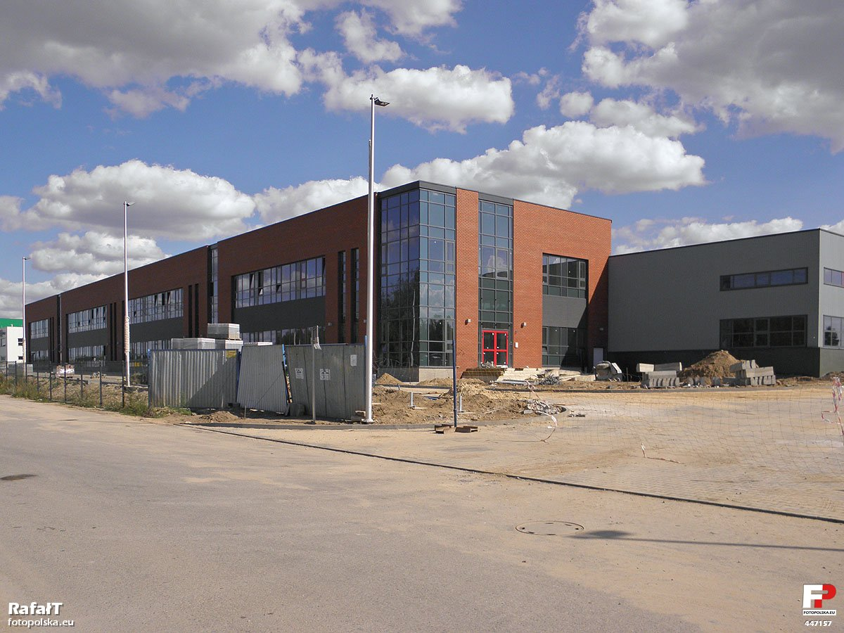 "Łucznik" Arms Factory; Radom, Poland - new building under construction (25.8.2013)